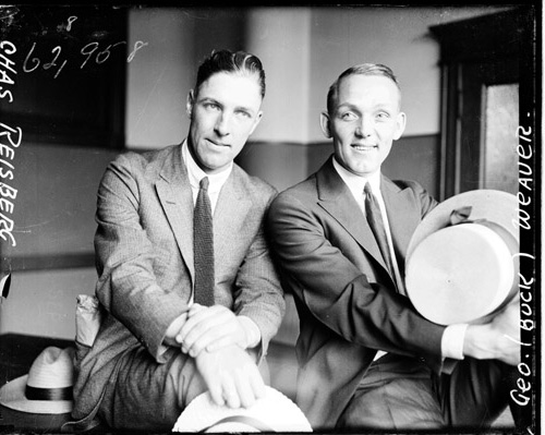 Chicago "Black Sox" Swede Risberg and Buck Weaver at the time of their 1921 trial. Image flipped to correct an erroneous initial version.